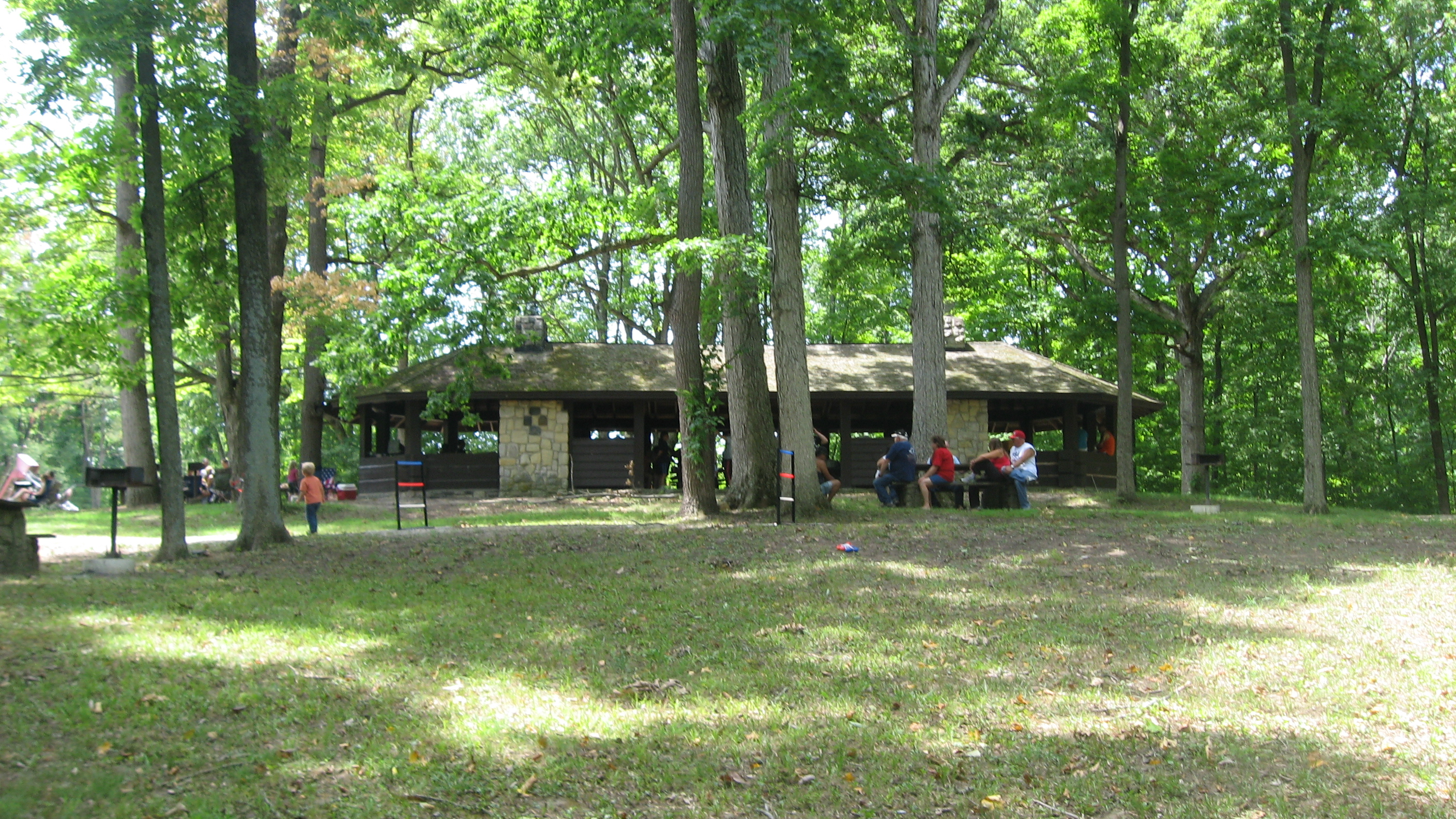 Eastern side of the Hominy Ridge Shelter House, located in the Salamonie River State Forest southeast of Lagro in Lagro Township, Wabash County, Indiana, United States. Built in 1937, it is listed on the National Register of Historic Places.